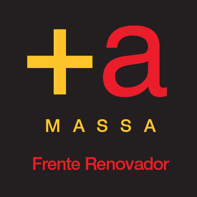 Logo of Frente Renovador, a political party of Argentina leadered by Sergio Massa.